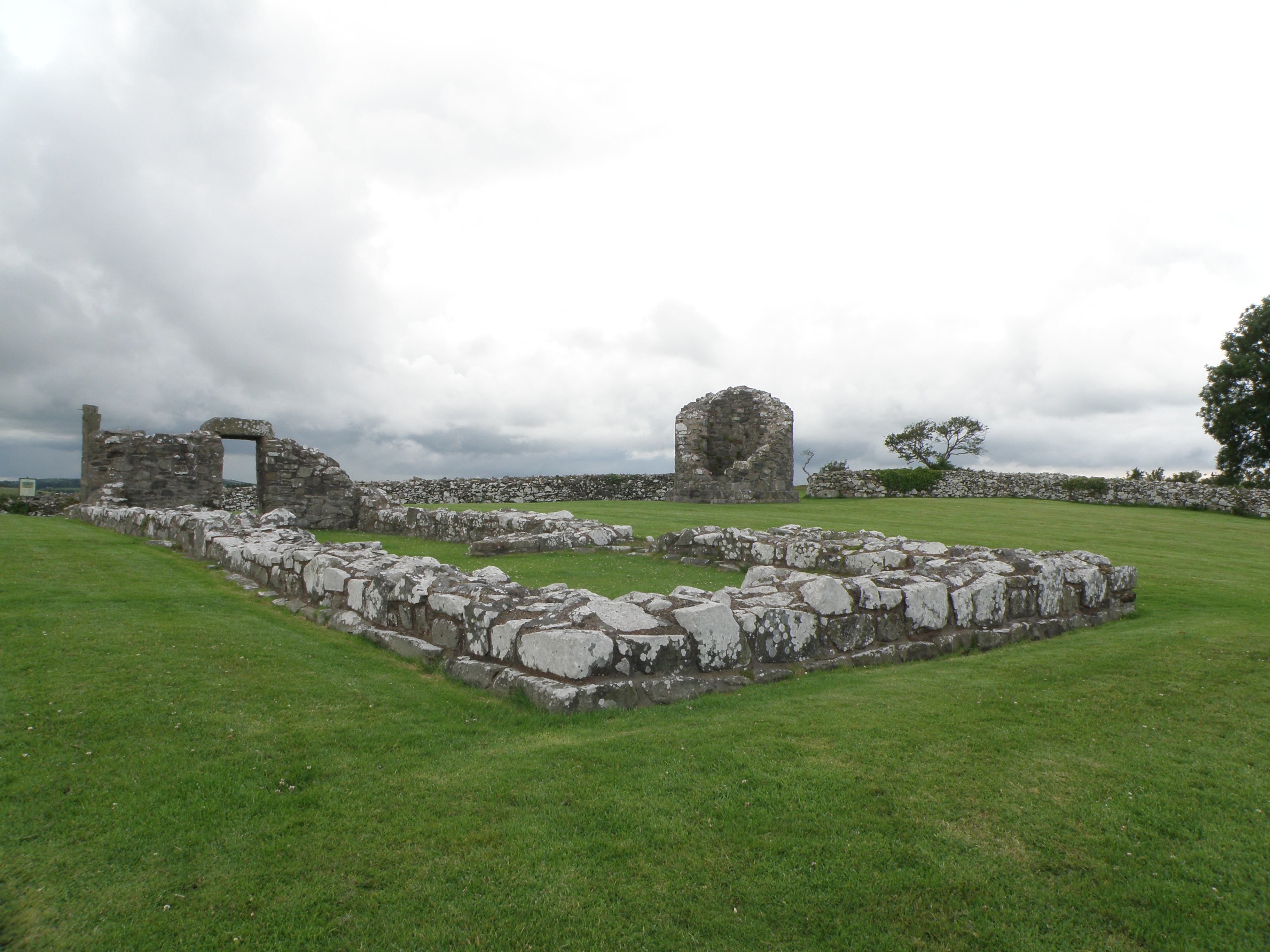 The main reconstructed buildings of Nendrum Monastery, Co. Down, Northern Ireland.